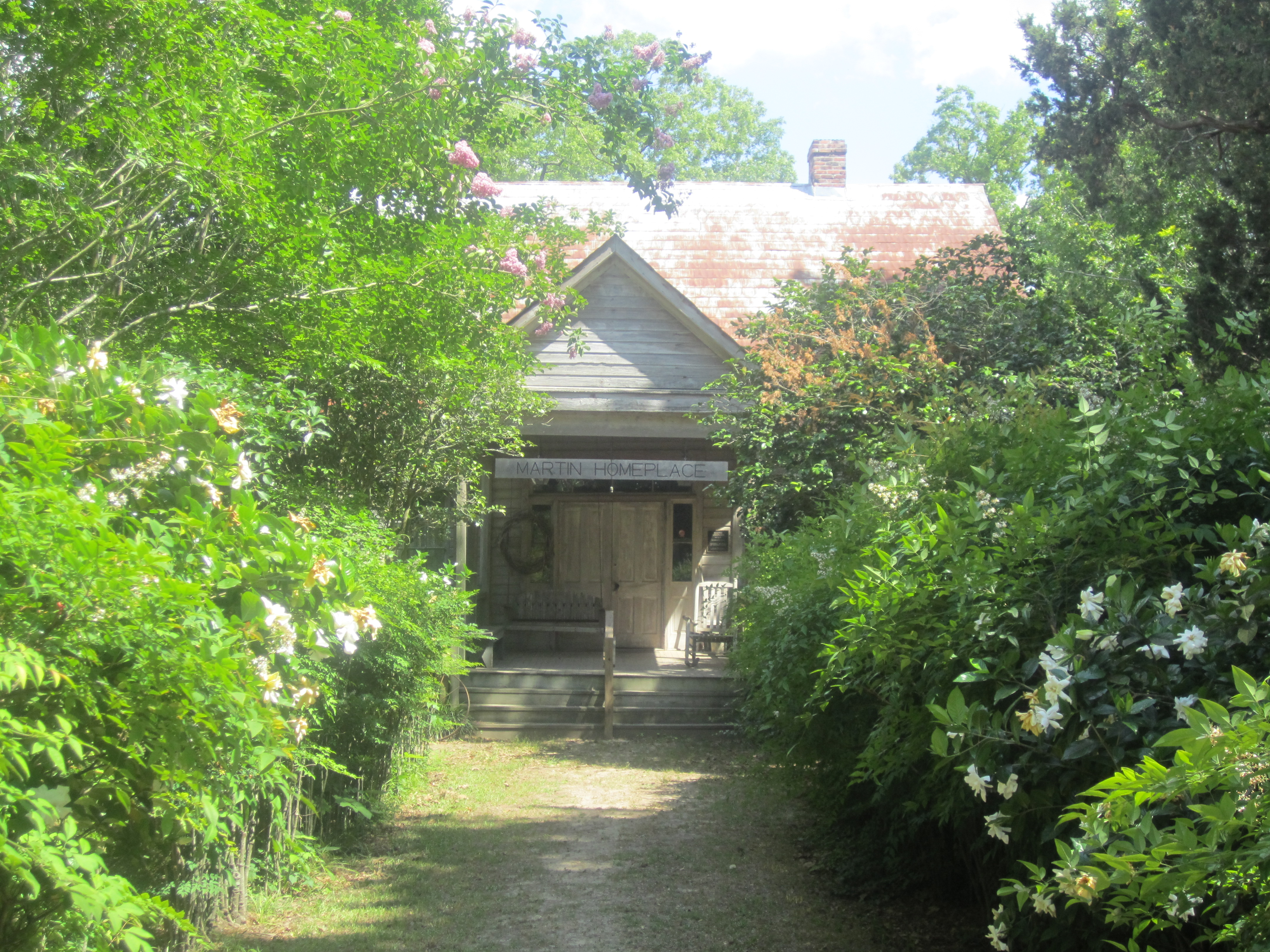 I took photo with Canon camera in Caldwell Parish outside Columbia, LA. It is the Martin Homeplace Museum.